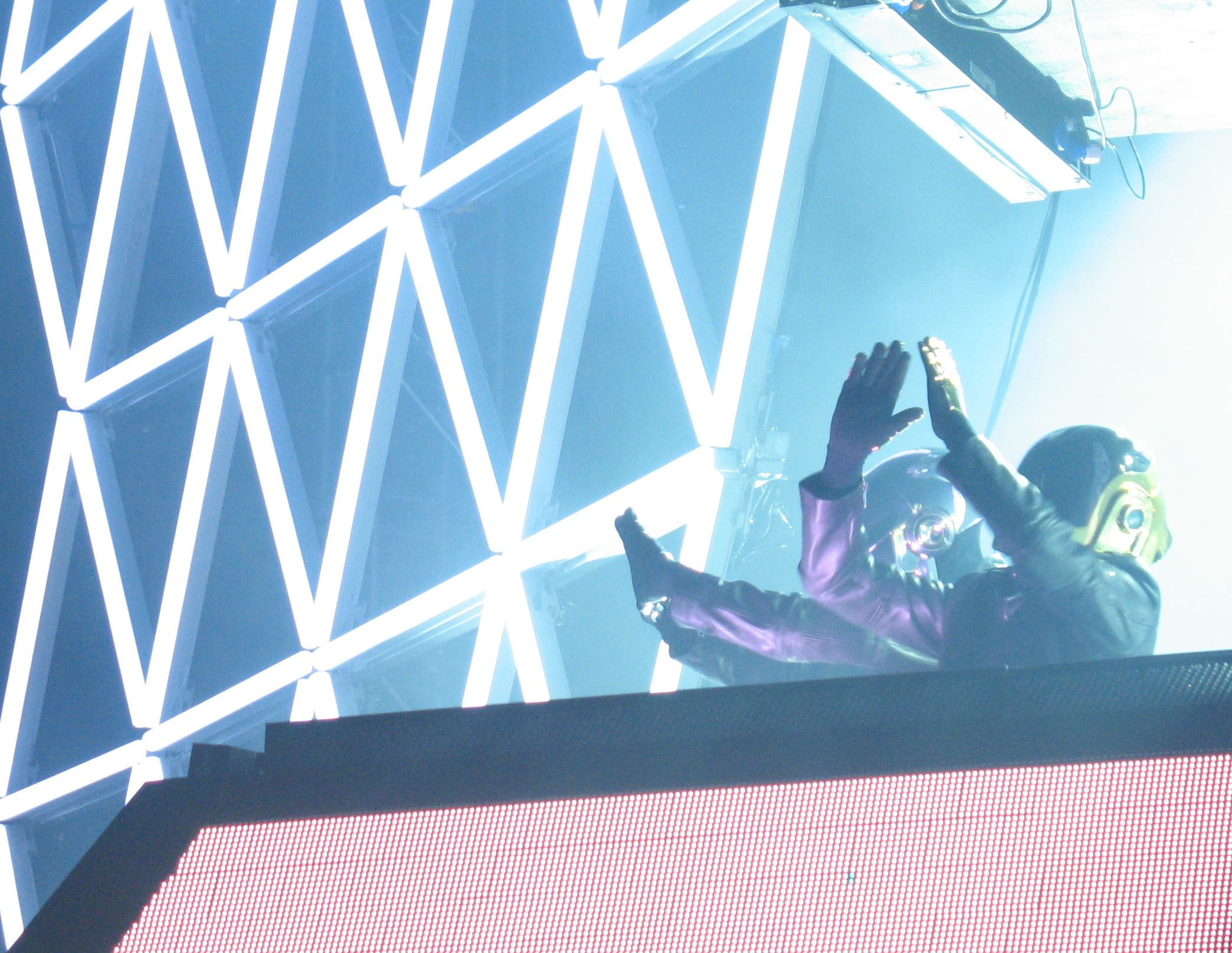 Daft Punk performing in Berkeley, California on July 27, 2007